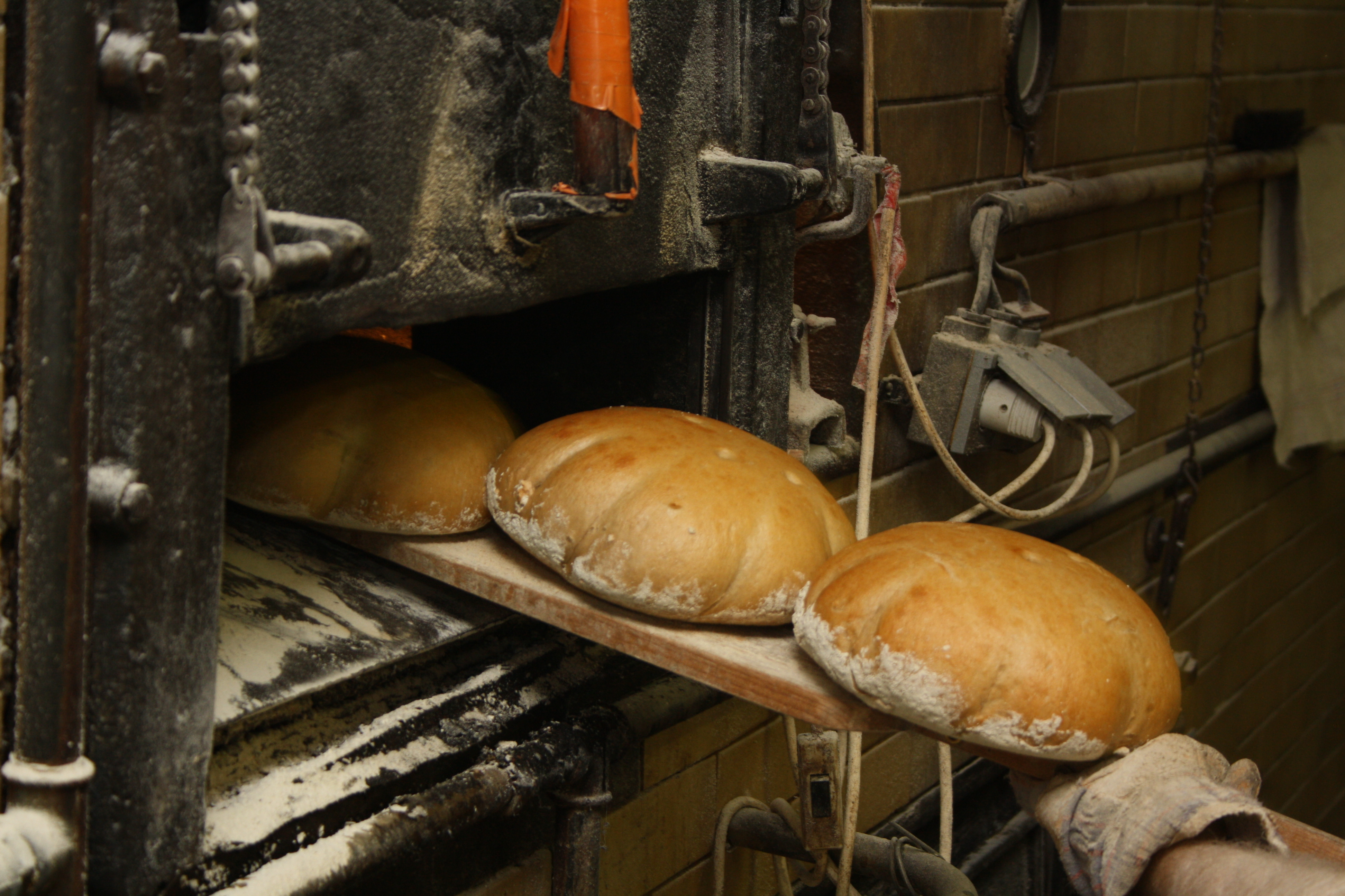 Production process of bread, Czech Republic This photograph was taken with a DSLR from WMCZ's Camera grant. This picture was taken and/or got within the scope of the 'Acquiring scientific and specialized pictures' grant.